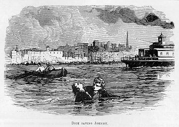 Illustration from Ragged Dick, 1868: Dick saves a child from drowning